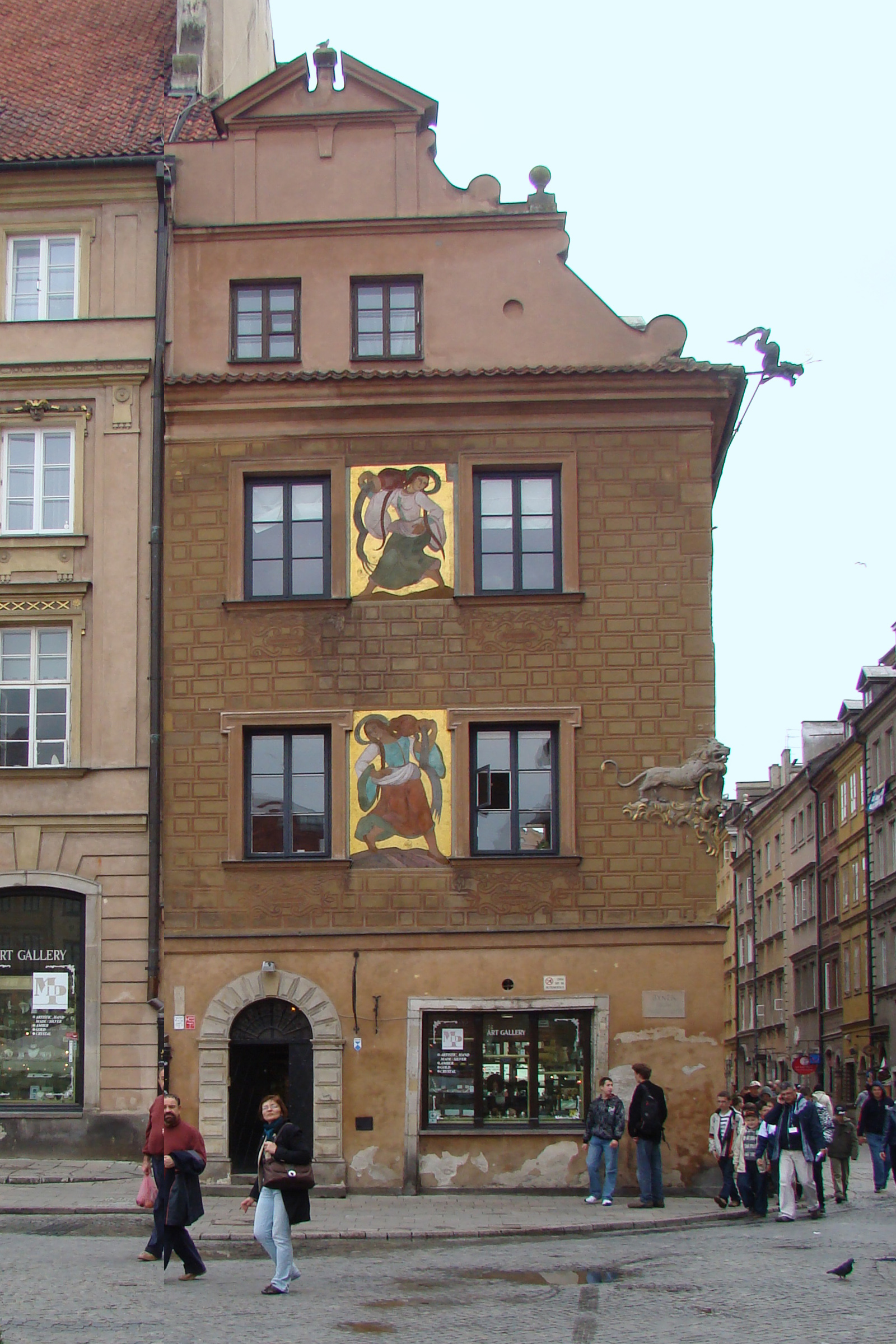 Frescoes of Zofia Stryjeńska 1928